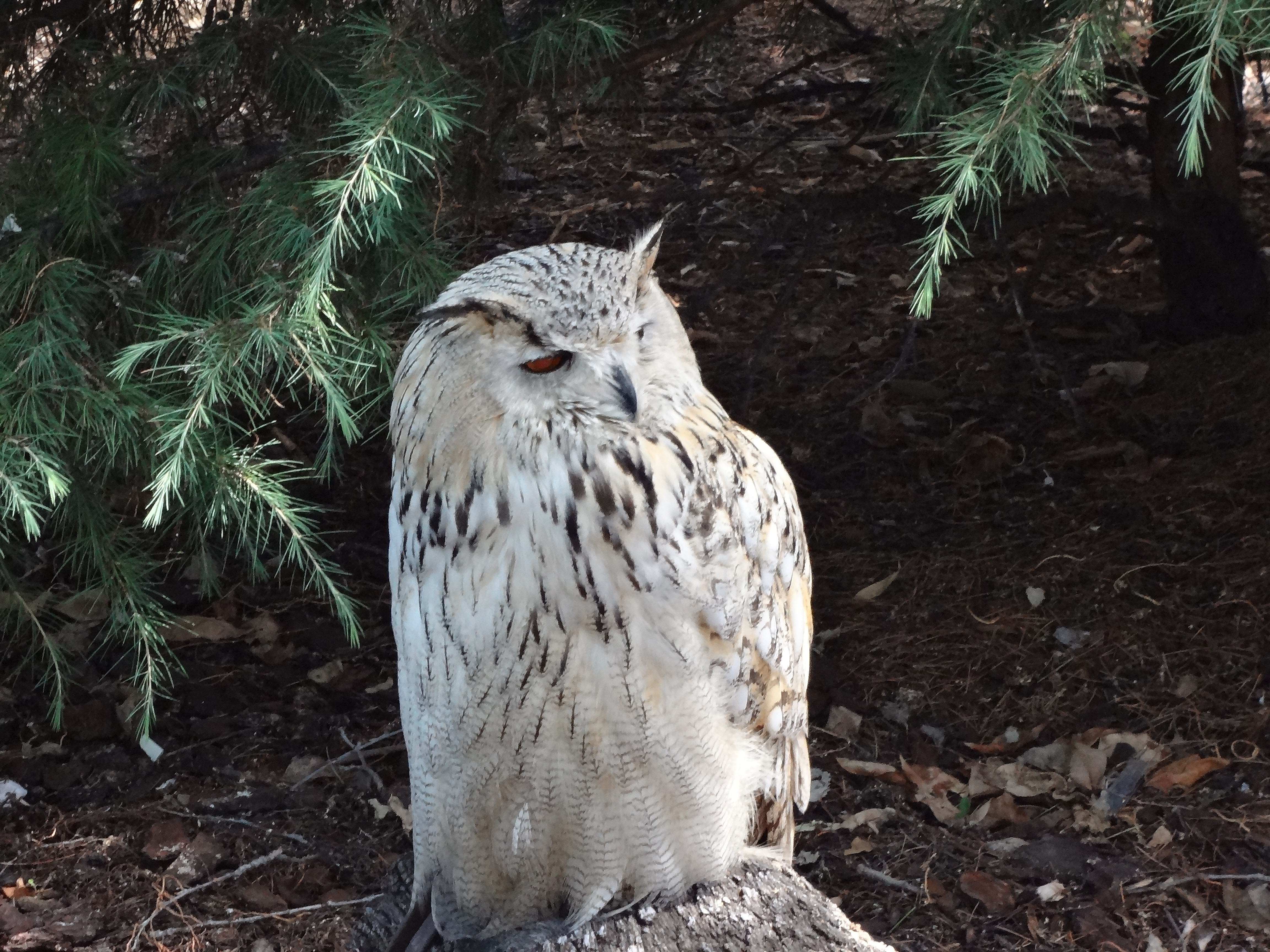 2014, Siberian Eagle Owl at Faunia in Madrid